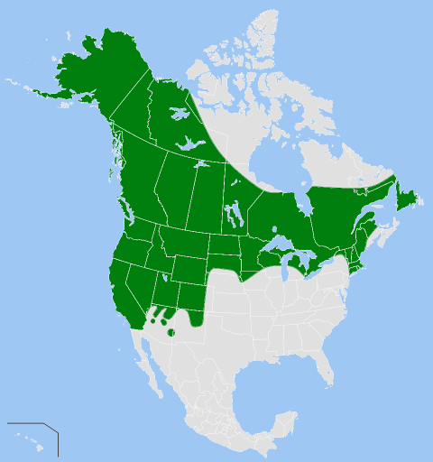 Distribution map of Large Heath or Common Ringlet (Coenonympha tullia) in North America.